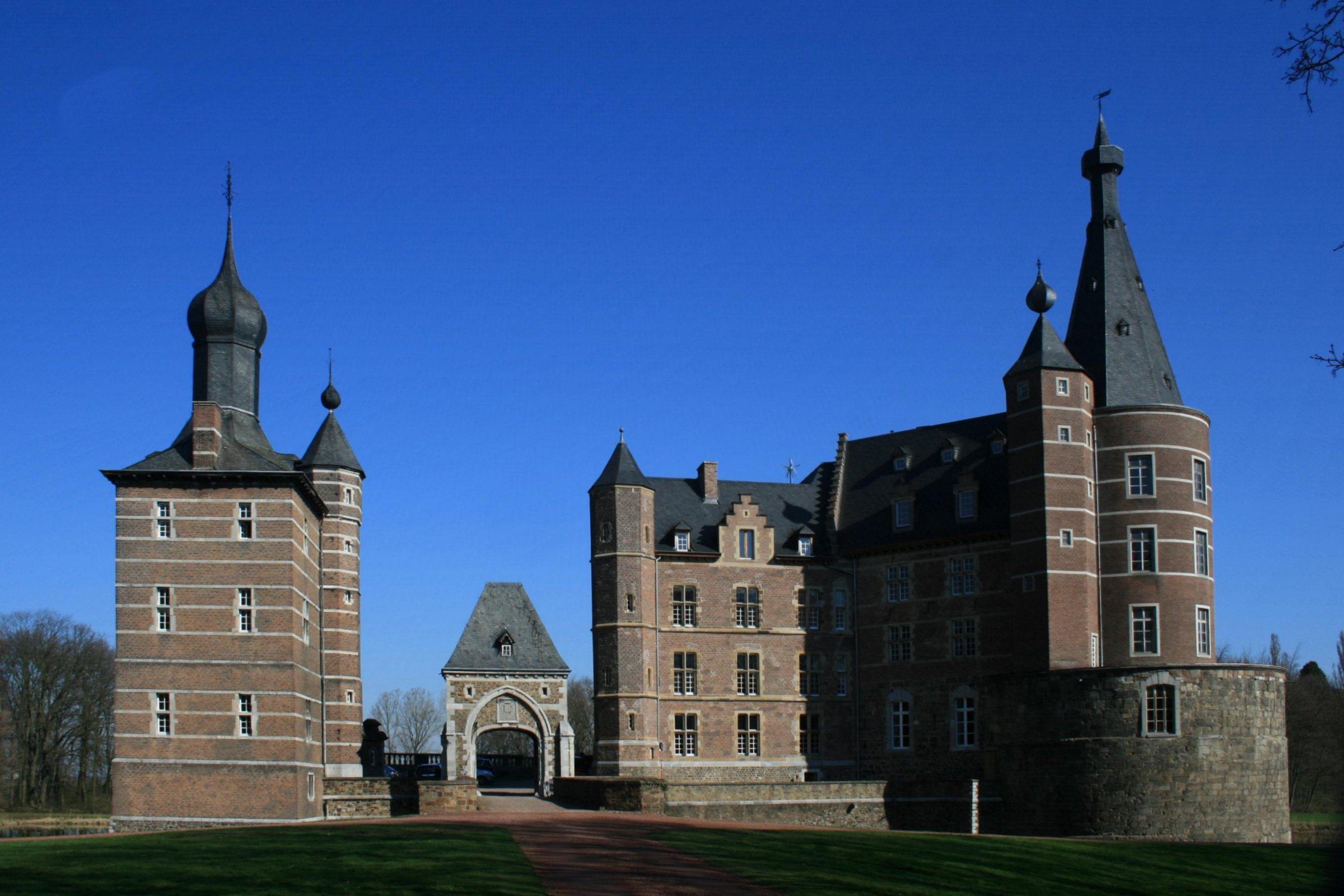 Cultural heritage monument No. 18 in Langerwehe